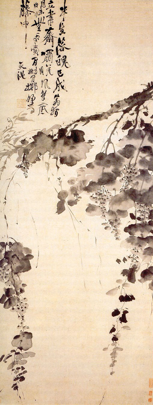 Grapes (葡萄) Hanging scroll, ink on silk. Size 166.3 x 64.5 cm (height x width). Painting is located in the Palace Museum, Beijing. (See Barnhart, R. M. et al. (1997). Three thousand years of Chinese painting. New Haven, Yale University Press. ISBN 0-300-07013-6. Page 231) From zh, uploaded by Wiseworm